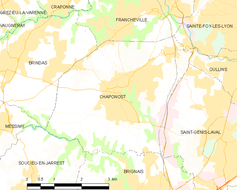 Map of French municipality